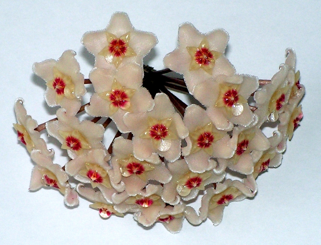 The inflorescence of Hoya carnosa